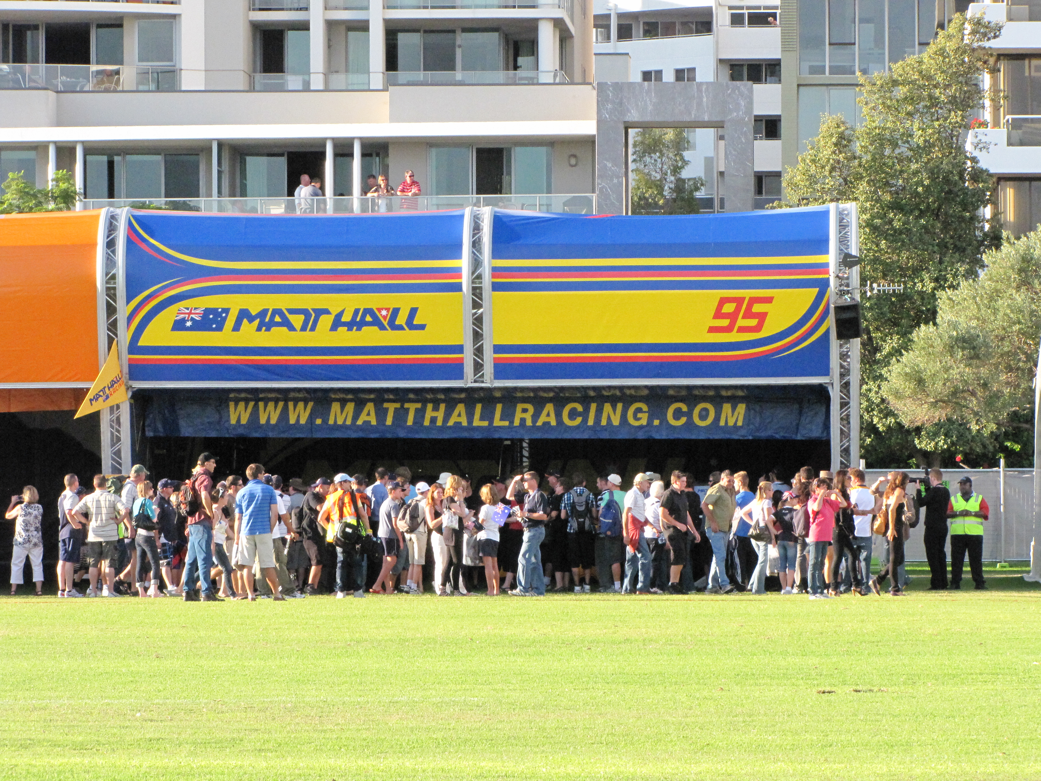 The Perth Red Bull Air Race was not held in 2009 but commenced again in April 2010. Once again Langley Park was converted to an airstrip and the larger crowd of spectators were to be found in Sir James Mitchell Park on the opposite bank of the Swan River. The hangar walk cost $80 after the conclusion of racing but was free later in the afternoon and attracted a large crowd of spectators. By far the biggest attraction was Australian Matt Hall who came in a close second on the weekend.